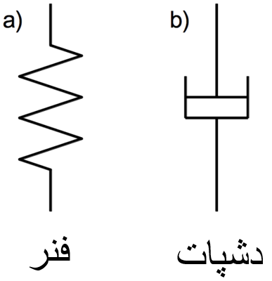 dashpot